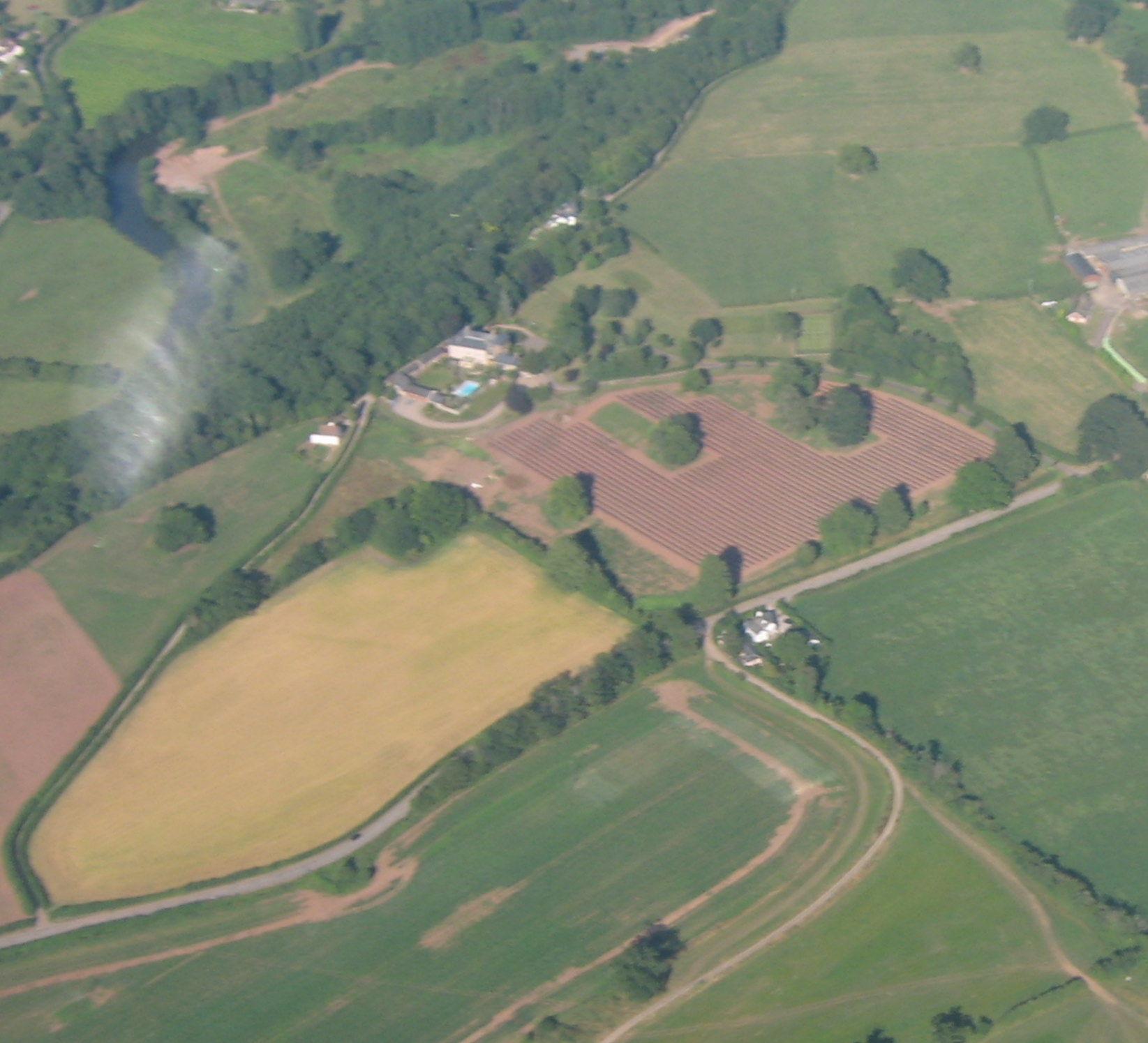 Ancre Hill Estate Rock field Road Monmouth July 2006